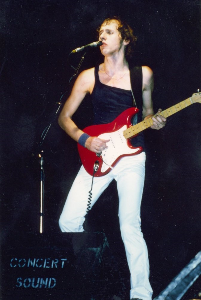 1979 - Dire Straits - Mark Knopfler - Rosengarten Mannheim, Germany